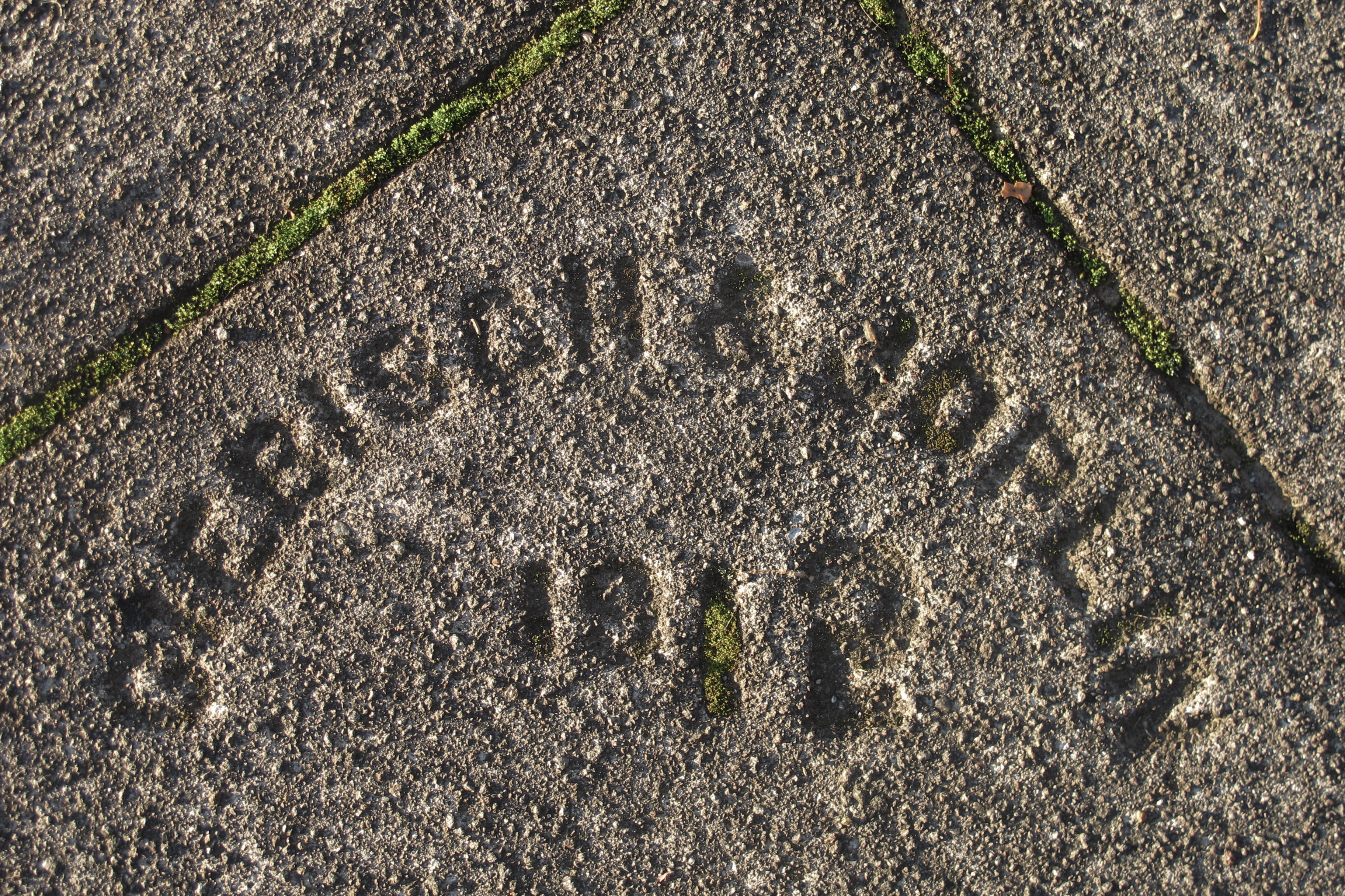 This is the same stamp in File:Geibisch & Joplin stamp.jpg, just with better lighting. It is a stamp in the concrete on the corner of 35th place and stanton, portland oregon usa, reading "Geibisch & Joplin 1912"